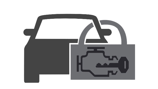 نماد سیستم ضد سرقت